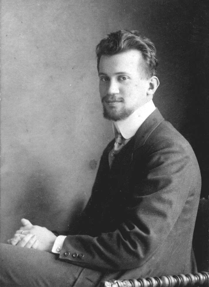 Tagantsev Vladimir Nikolaevich (1889-1921) was Russian geographer and glaciologist. Cheka accused him of being involved in a plot against the Bolshevik regime and shot along with his wife and scores of others (up to 96 victims total).